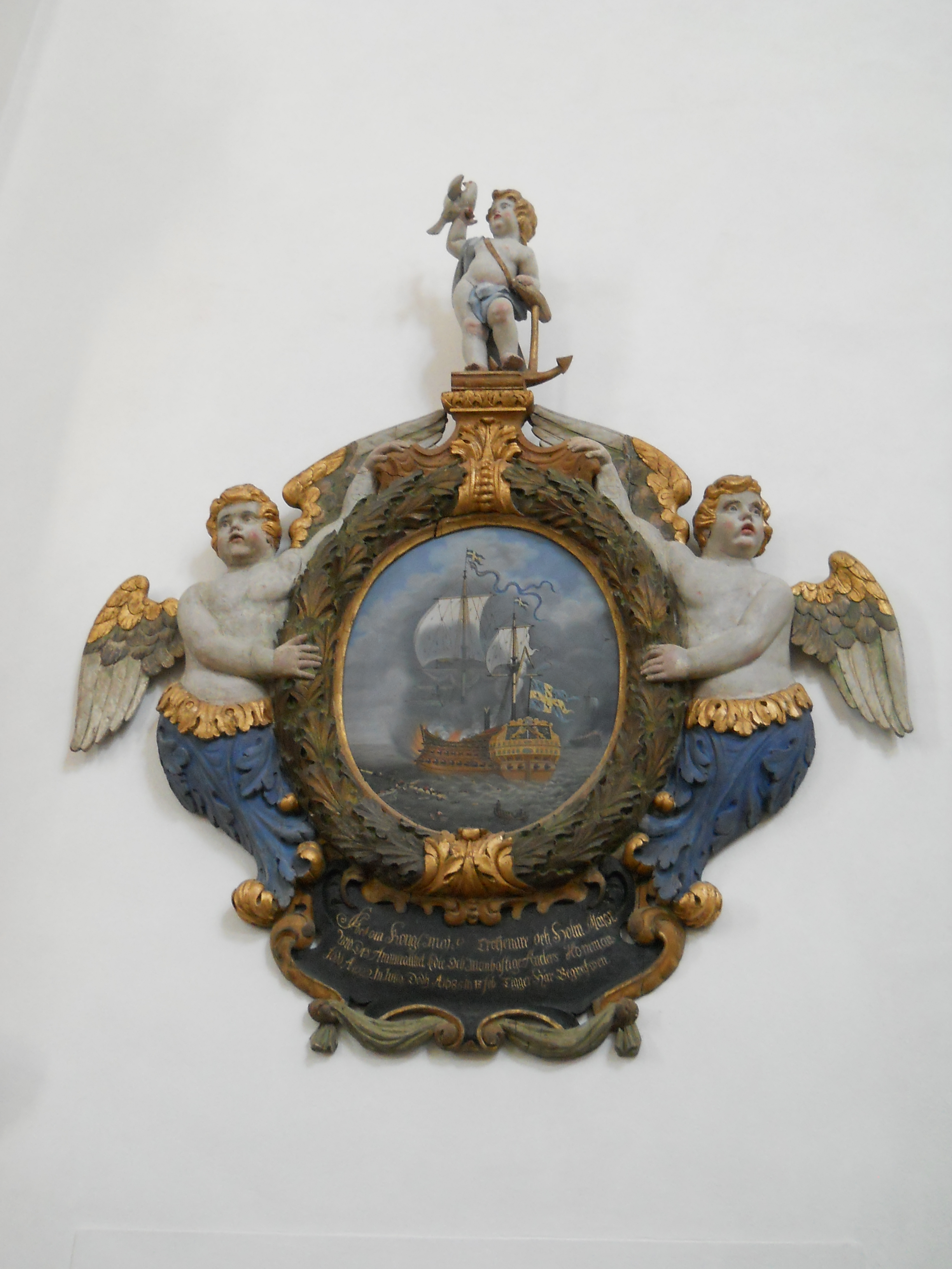 Epitaf at the Kalmar Domkyrka with an picture of the Svärdet 1662-1676